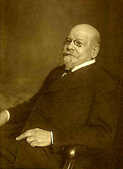 Portrait photo of Emil Rathenau, founder of AEG, seated, facing left. Original size 16.3×22.5 cm.